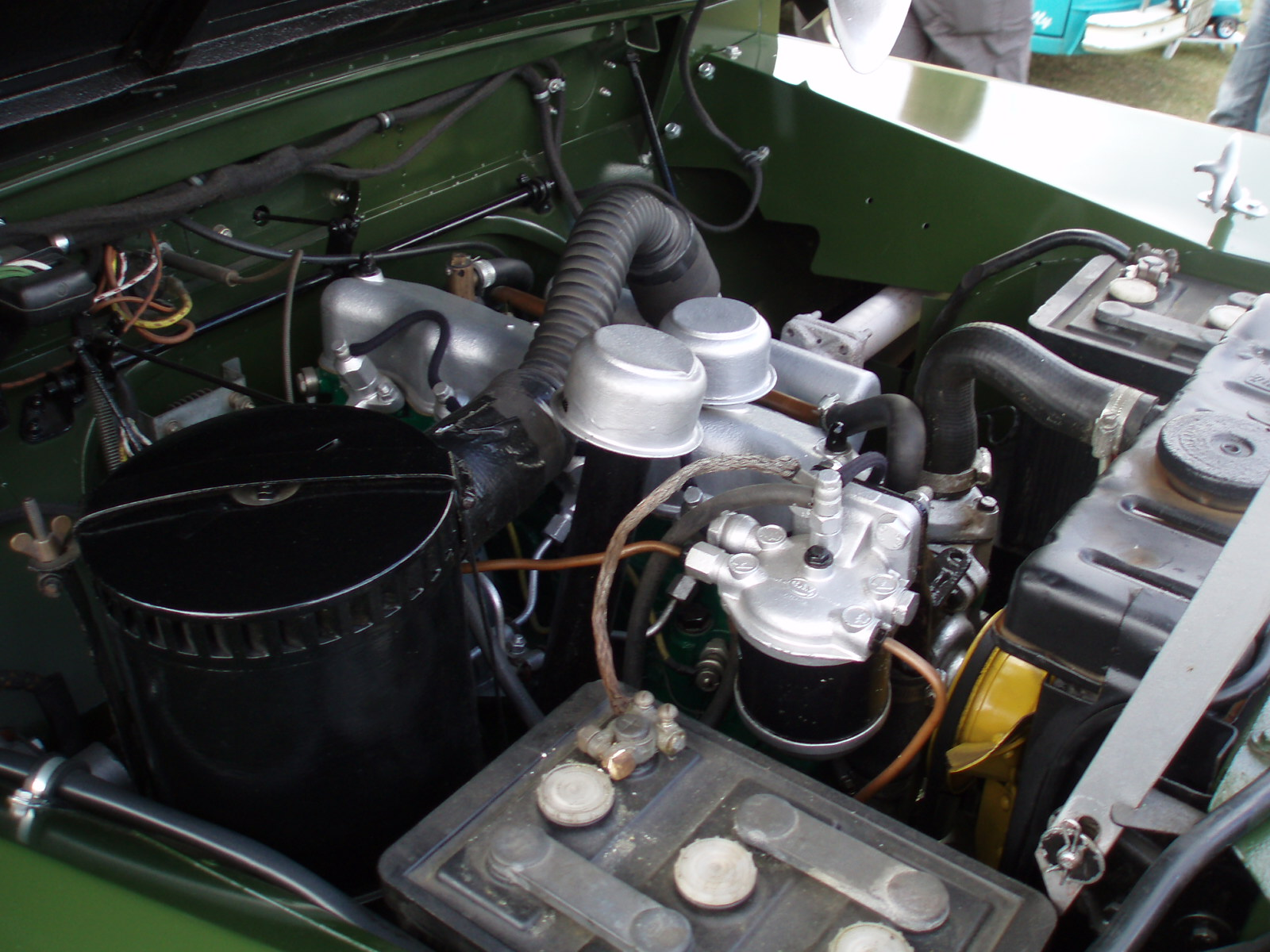 The view of the right-hand side of a Rover 2-litre diesel engine fitted in a Land Rover Series I 88-inch. The engine has been restored in a non-original colour scheme.